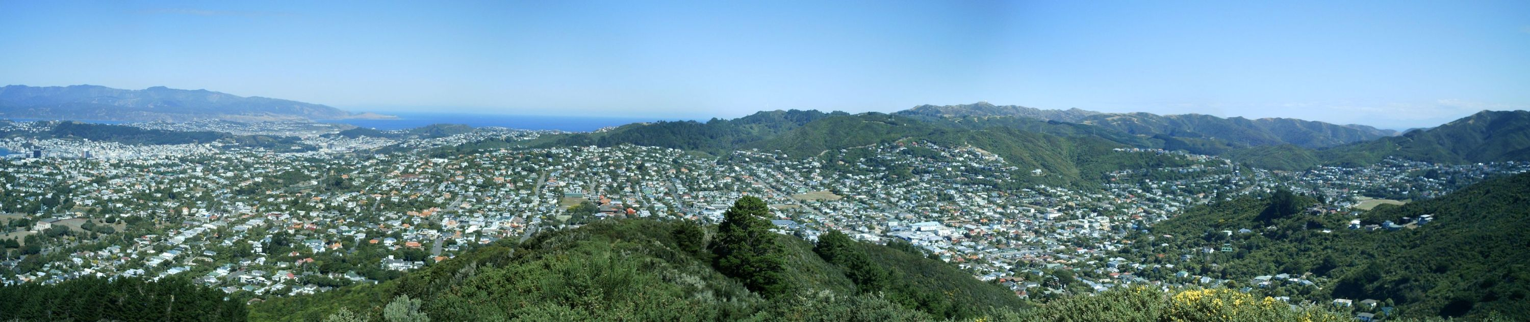 Panorama photo (computer-assembled) of Karori, Wellington, New Zealand